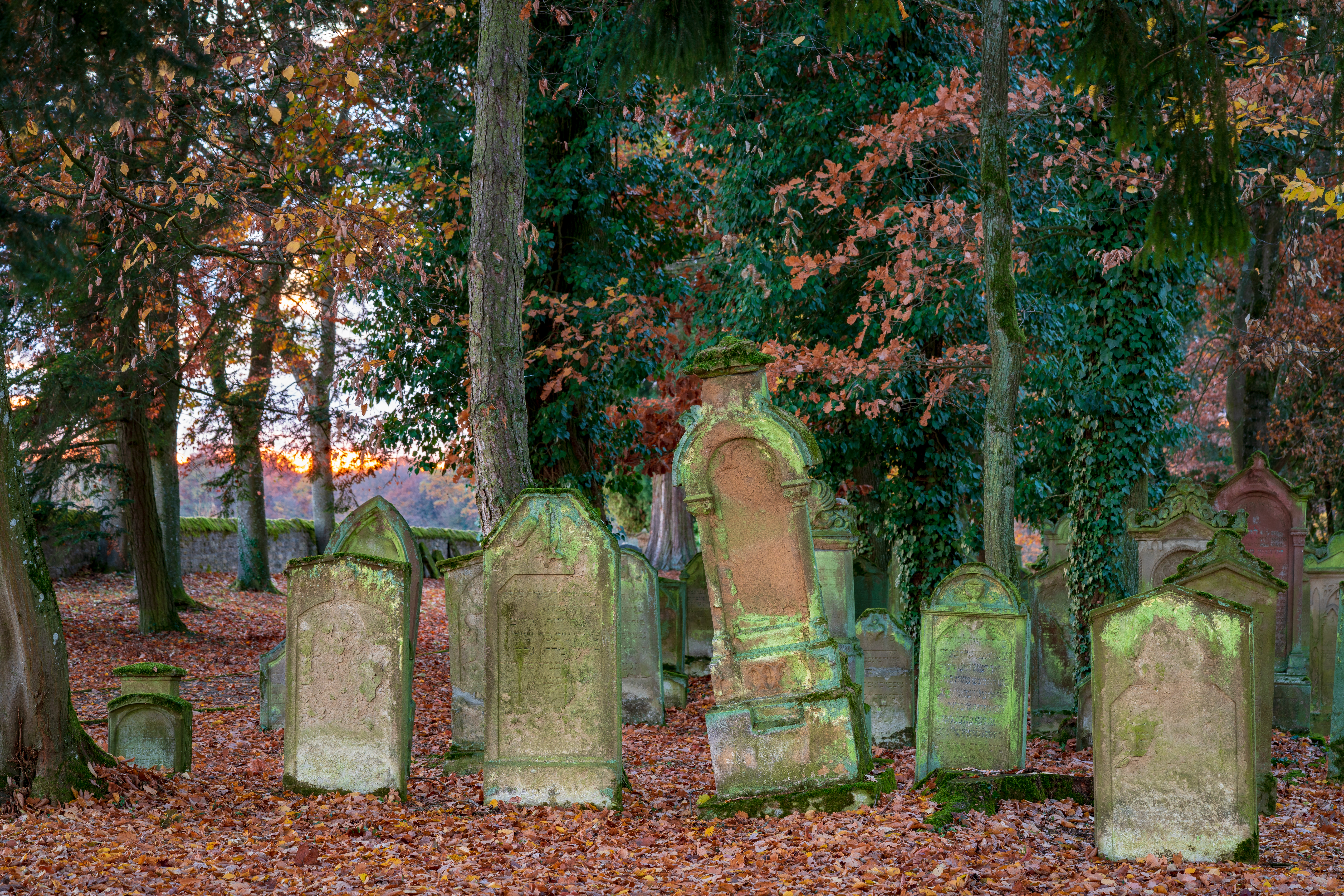 The old Jewish cemetery near Heinsheim, Bad Rappenau, Germany. This cemetery was established in the 16th century and is one of the largest and best preserved Jewish cemeteries in south-west Germany.The photo shows the view over the eastern enclosure wall to the first row of gravestones, which date from the late 18th/early 19th century. The photo was taken on an autumn evening shortly before sunset, hence the saturated, but somewhat subdued colours.